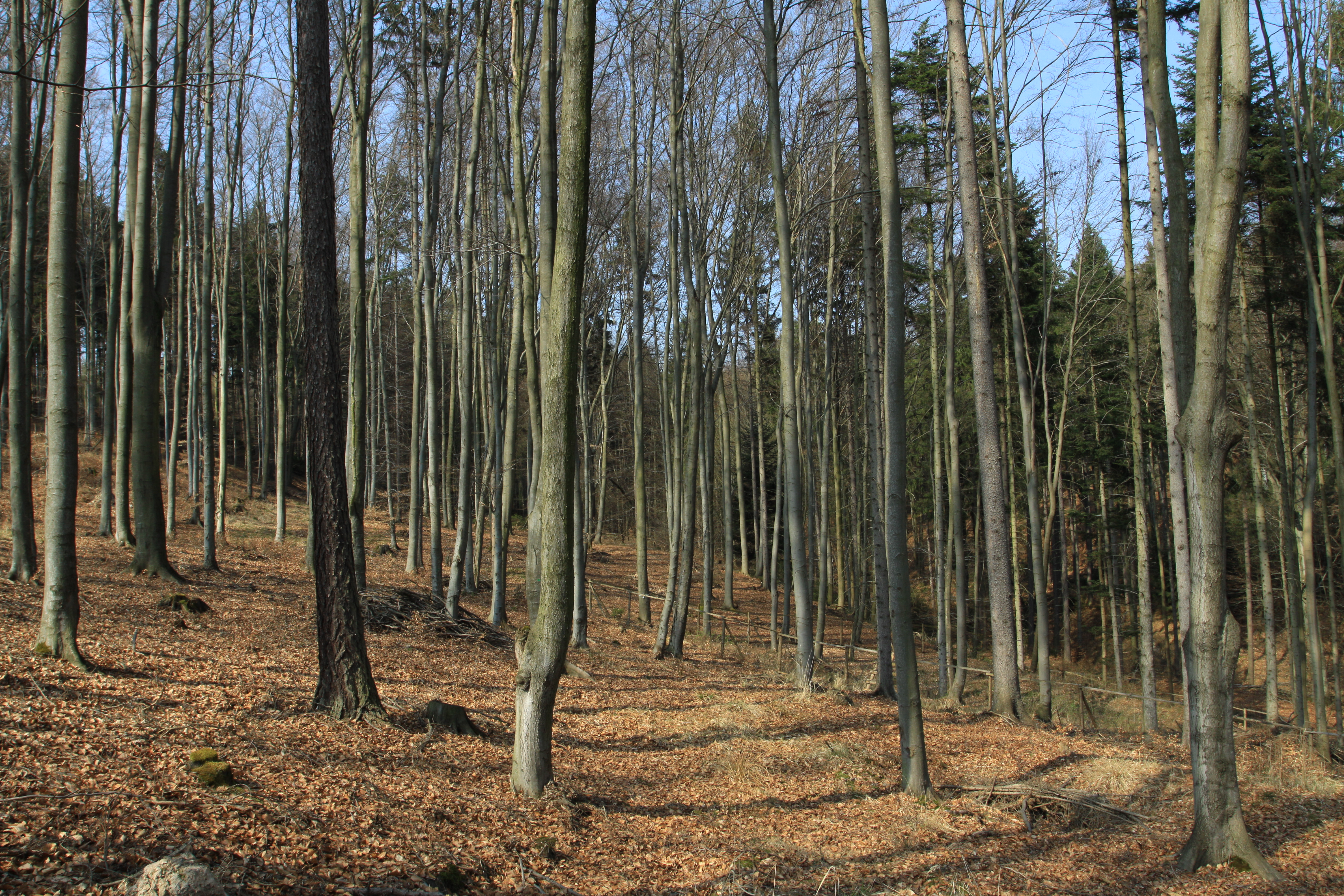 National natural monument Bílichovské údolí, Kladno District, Czechia